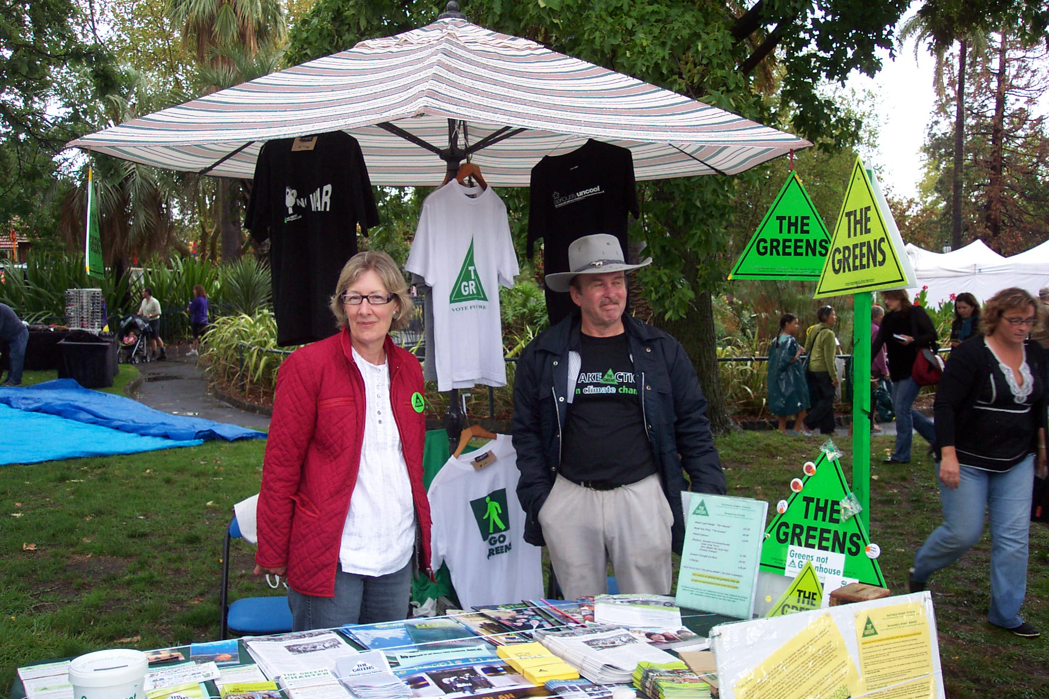 Members of the Booroondara branch of The Greens, at the 2009 Kew Festival.